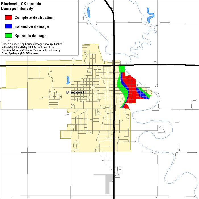 Map showing the degree of damage suffered in Blackwell, Oklahoma from the 1955 F5 tornado.